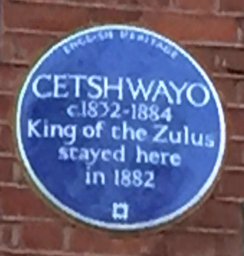 Cetshwayo Blue Plaque in Kensington, London